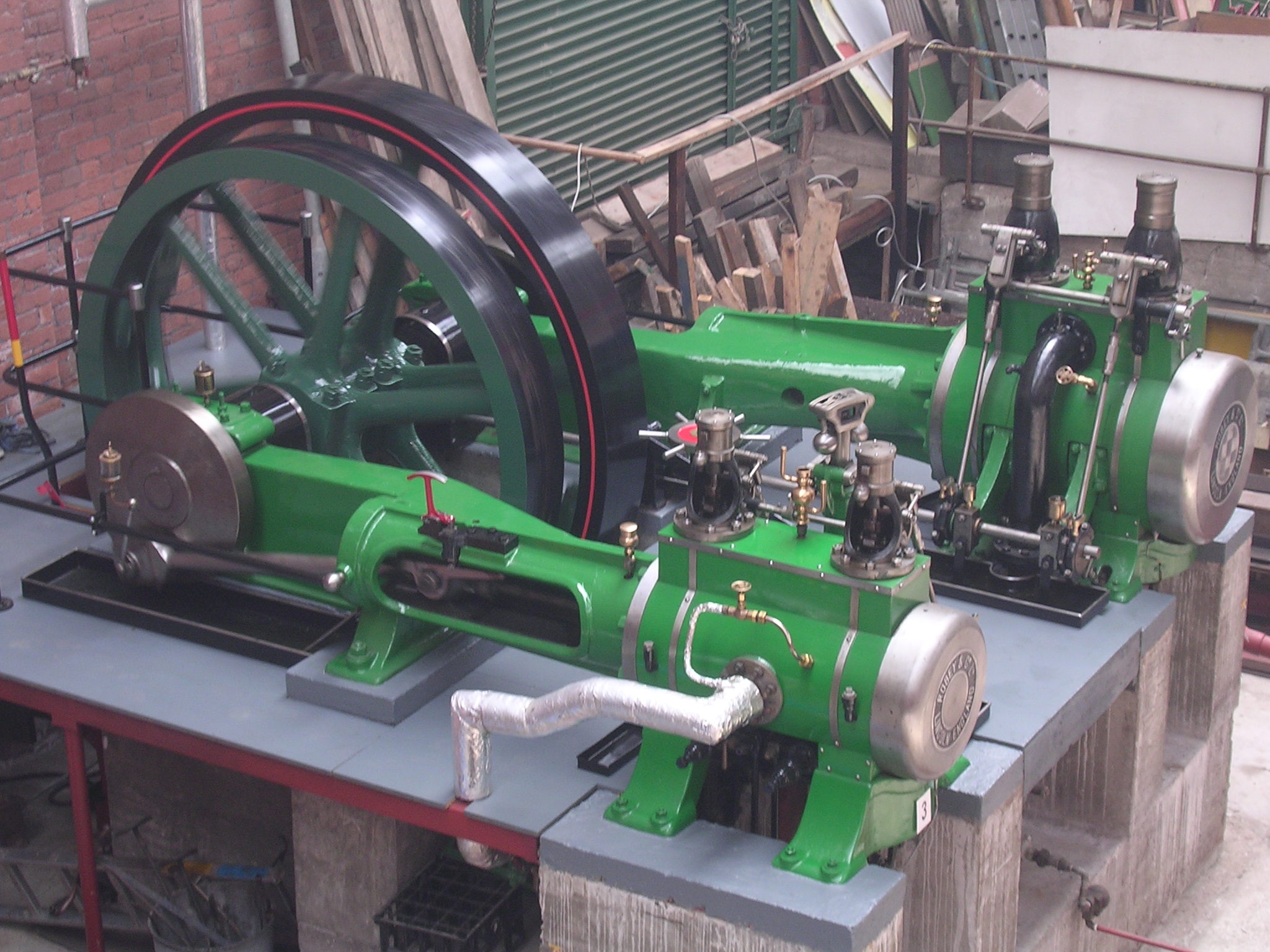 Robey cross-compound steam engine Now at Bolton steam museum